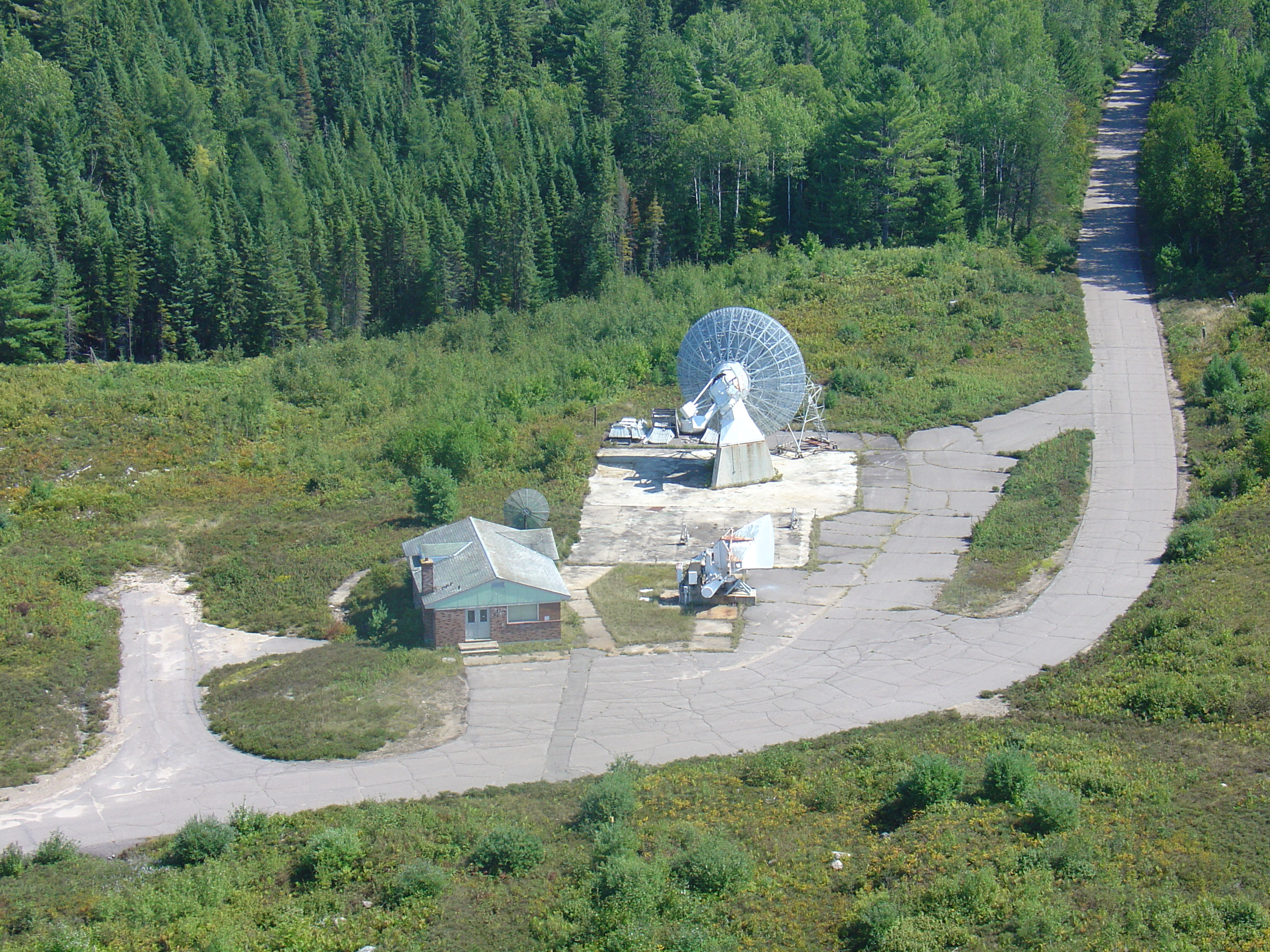 The 11 m antenna complex at Algonquin Radio Observatory comprising control house, 11 m equatorial mount antenna and a parabolic microwave feed horn.